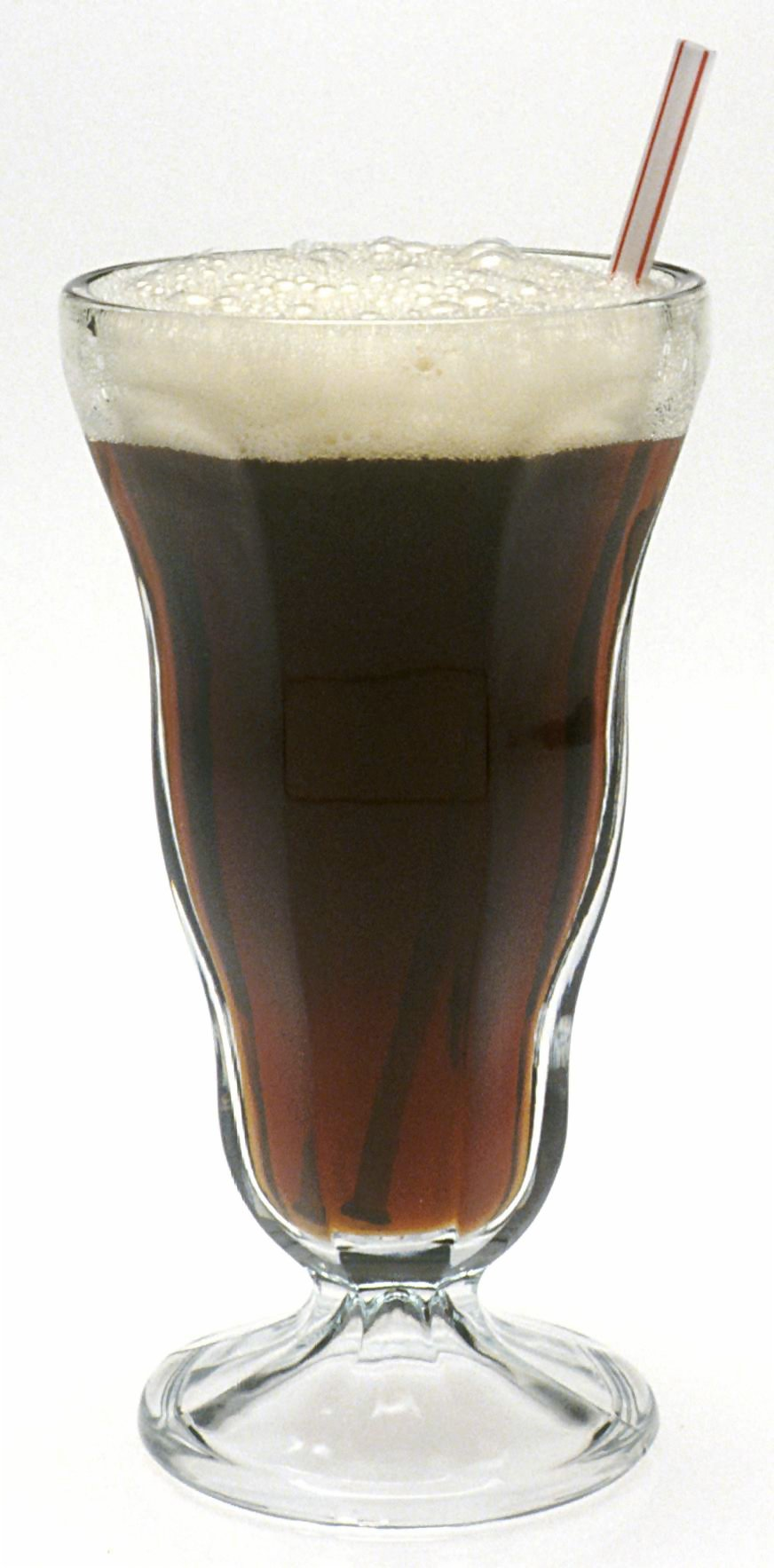 a large sundae, fountain type glass filled with fountain soda (root beer?), soda straw